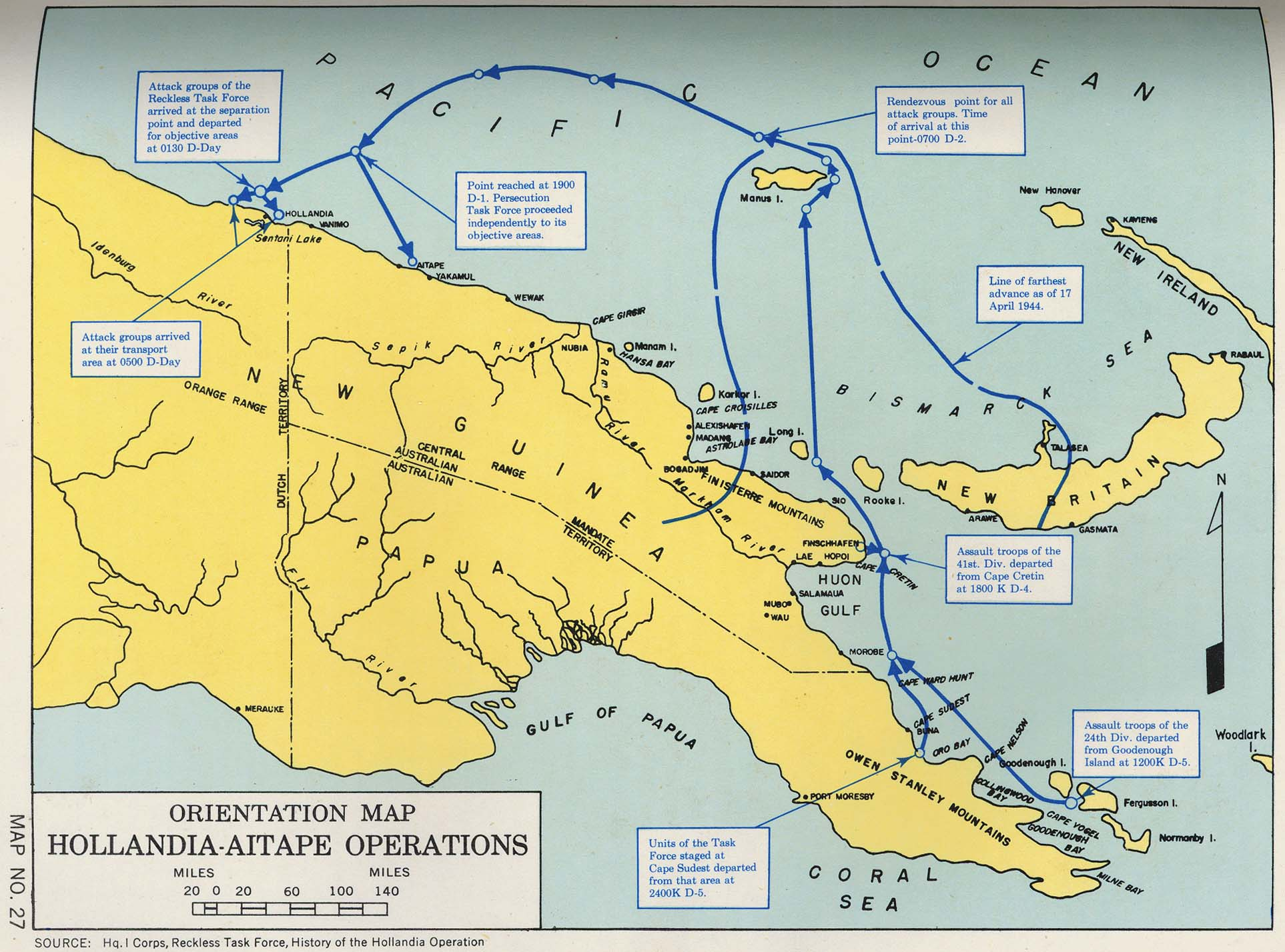 Aitape, Plan of Battle